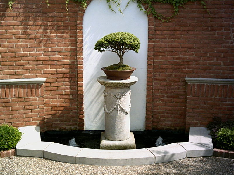 Bonsai Showcased at Missouri Botanical Garden